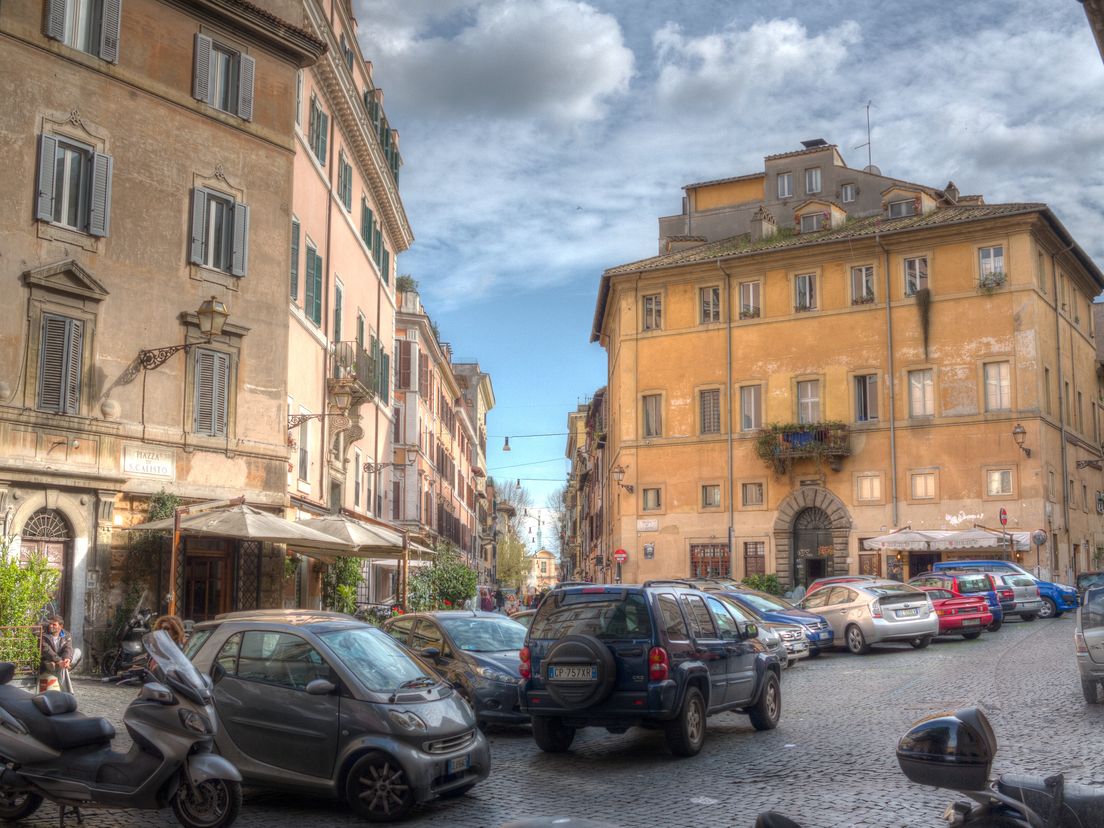 Piazza di San Callisto in Rione XIII / Trastevere in Rome / Italy / EU.